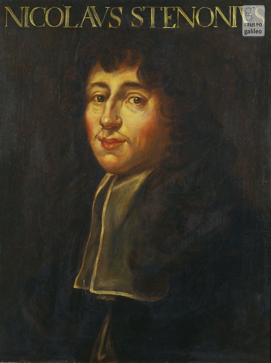 Portrait of Nicolas Stenonus, part of the serie of portraits of distinguished men who were associated with the Court of Ferdinand II and Cosimo III. Unsigned but probably painted between 1666 and 1677 by Justus Sustermans. (Uffizi, Florence, Italy)